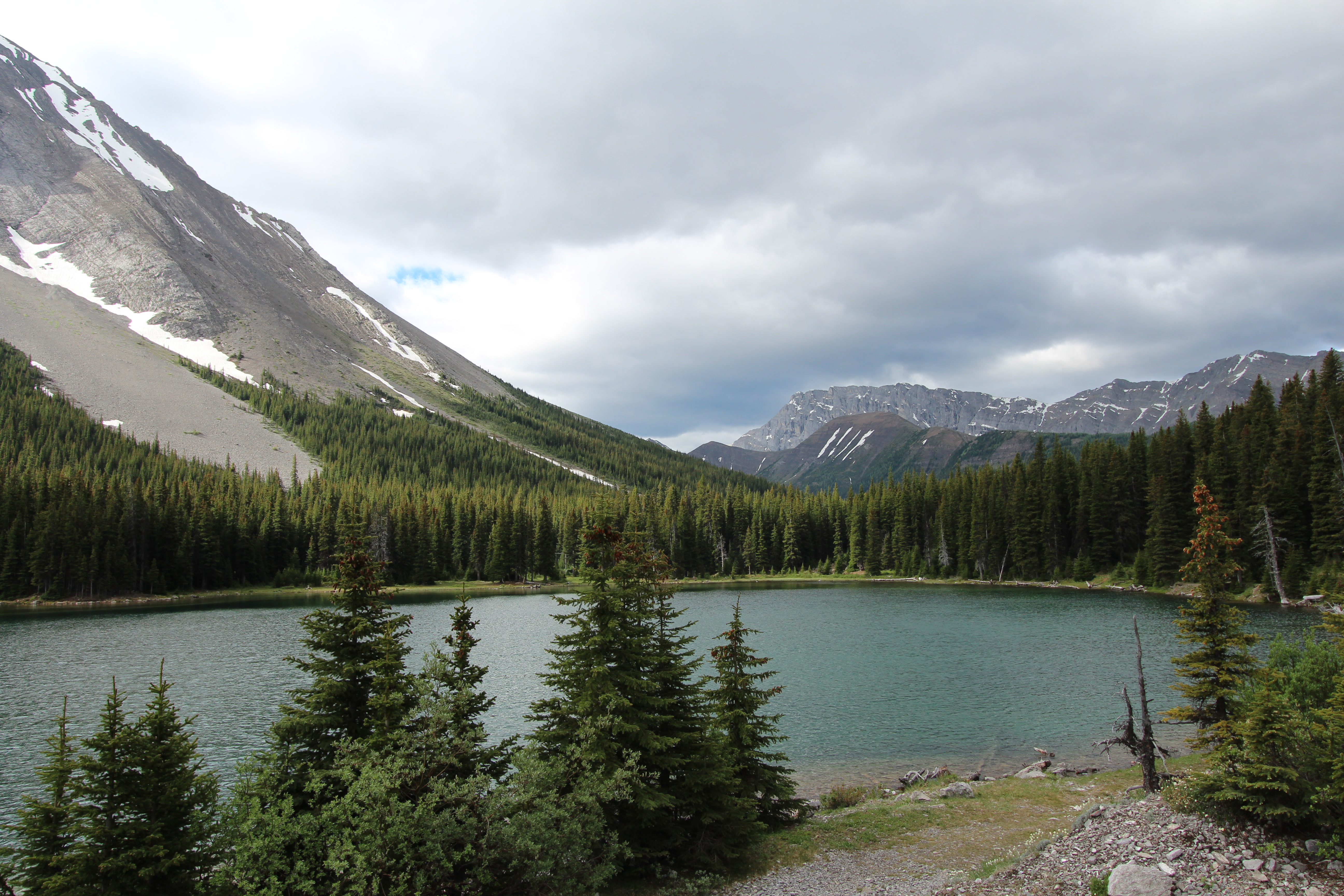 Early morning visit to Elbow Lake In Kananaskis.